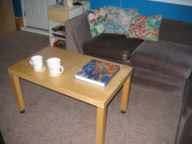 A domestic coffee table in a residential setting, with two coffee mugs and a coffee table book on it.